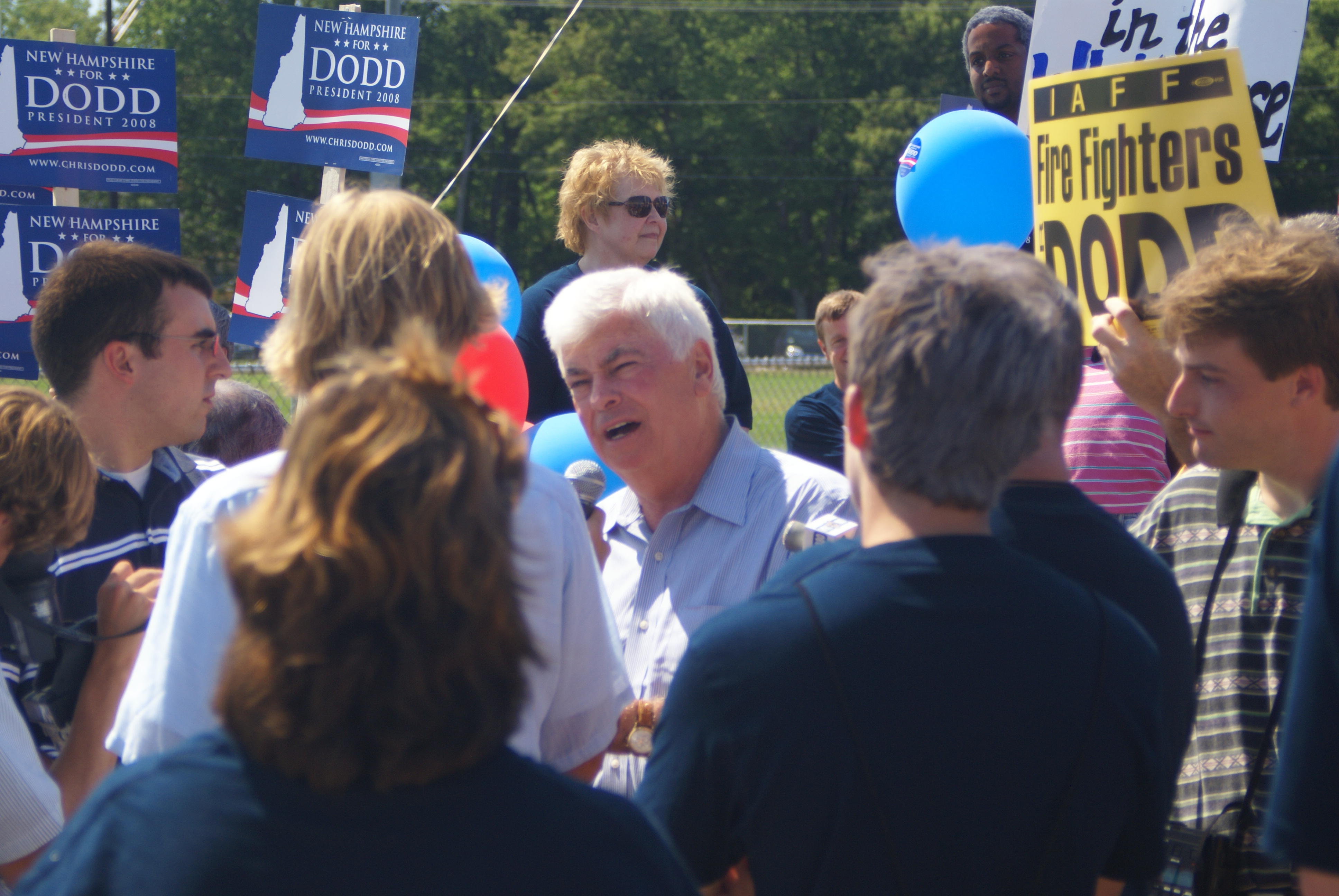 Chris Dodd campaigns for the Democratic presidential nomination in Milford, NH during Labor Day 2007